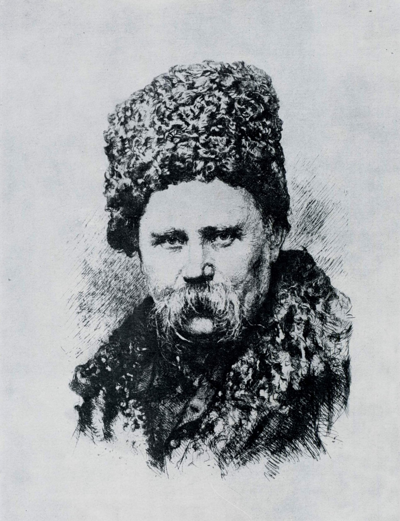 Portrait (etching) of the Ukrainian poet Taras Shevchenko